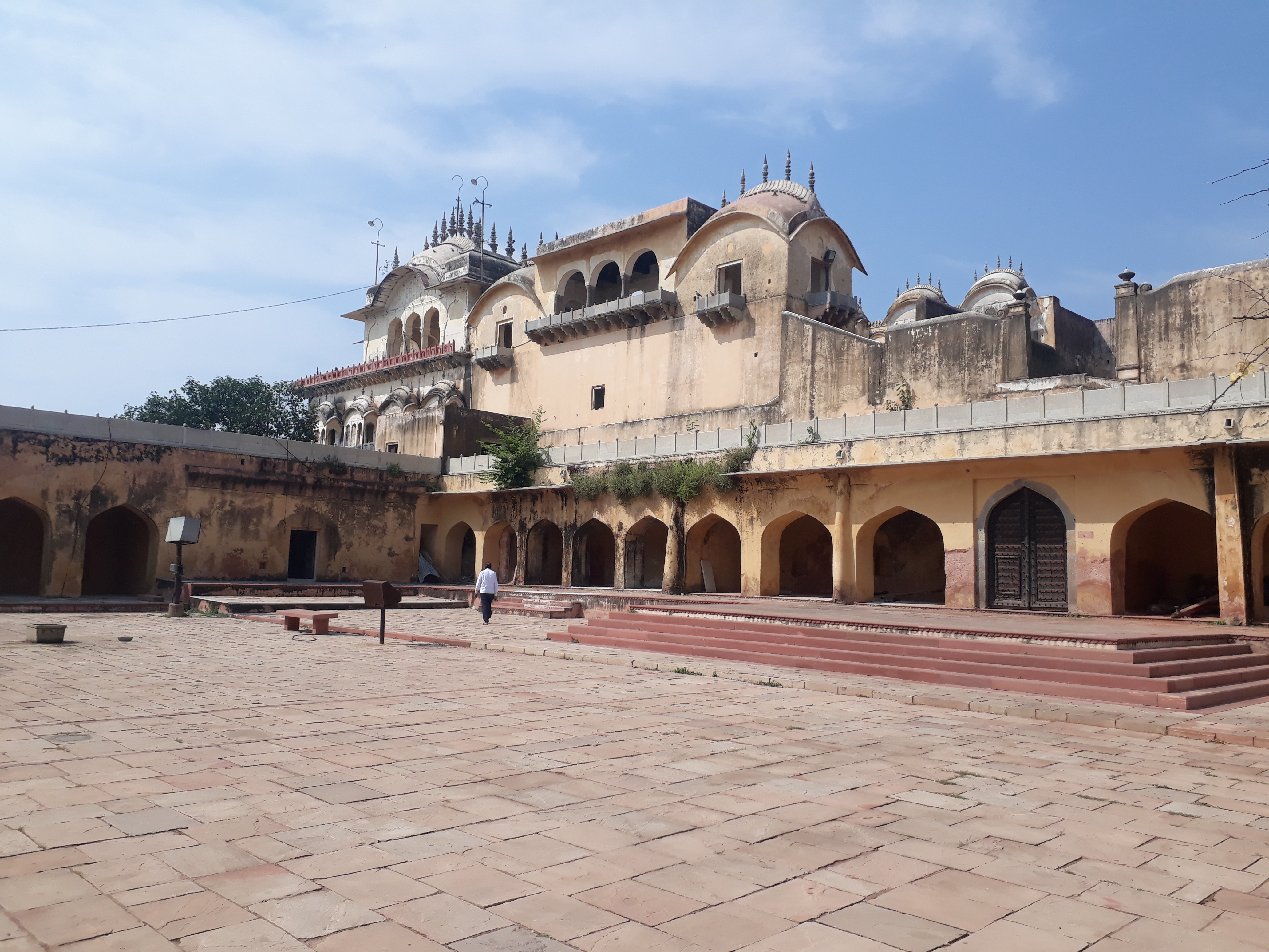 Bala Quila or Alwar fort in Alwar forest, Alwar district, Rajasthan